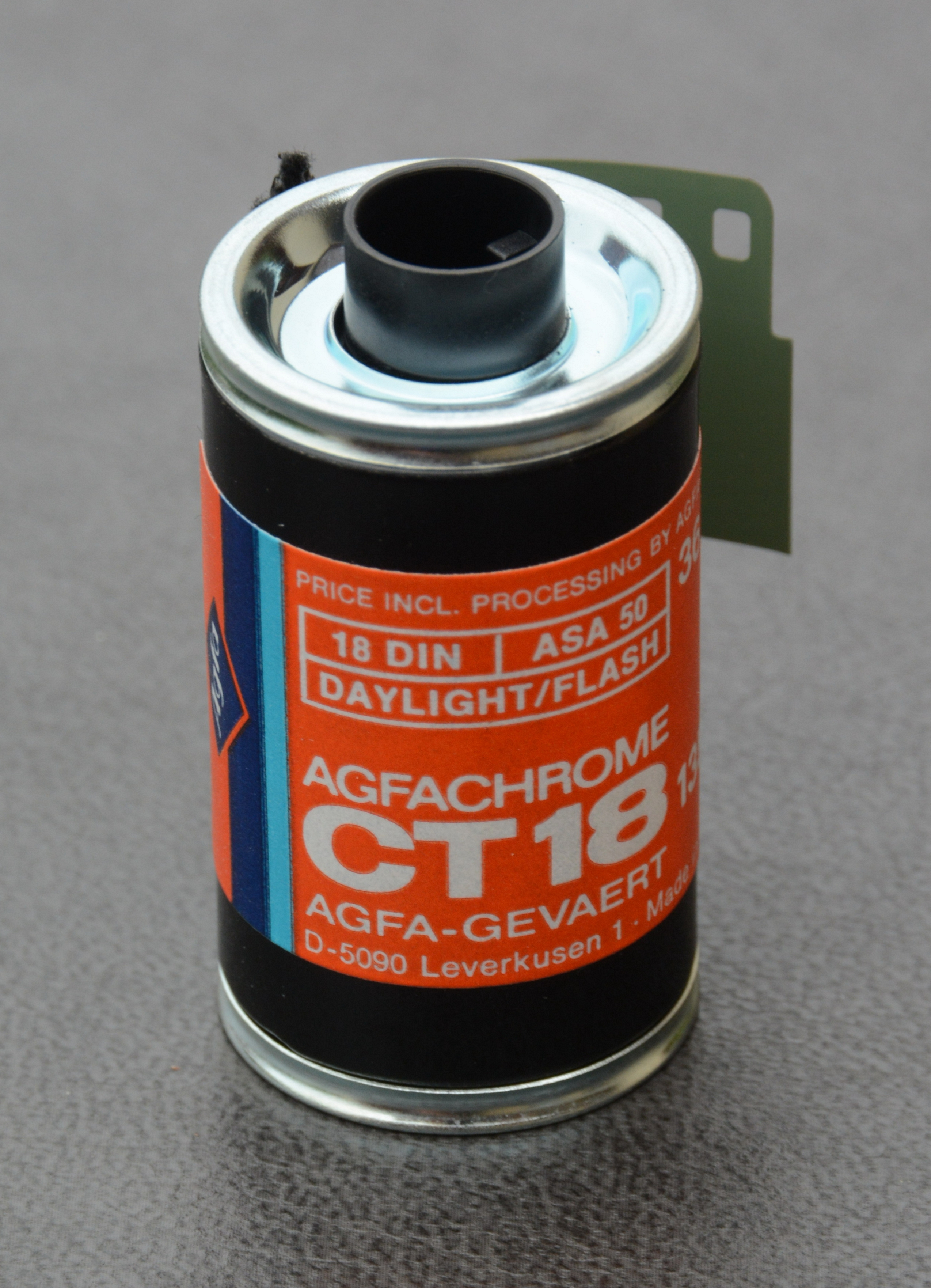 Agfa Agfachrome CT18 film for colour slides (expiration date Jan. 1981)